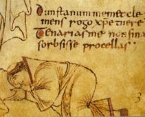 Probable self-portrait of St Dunstan